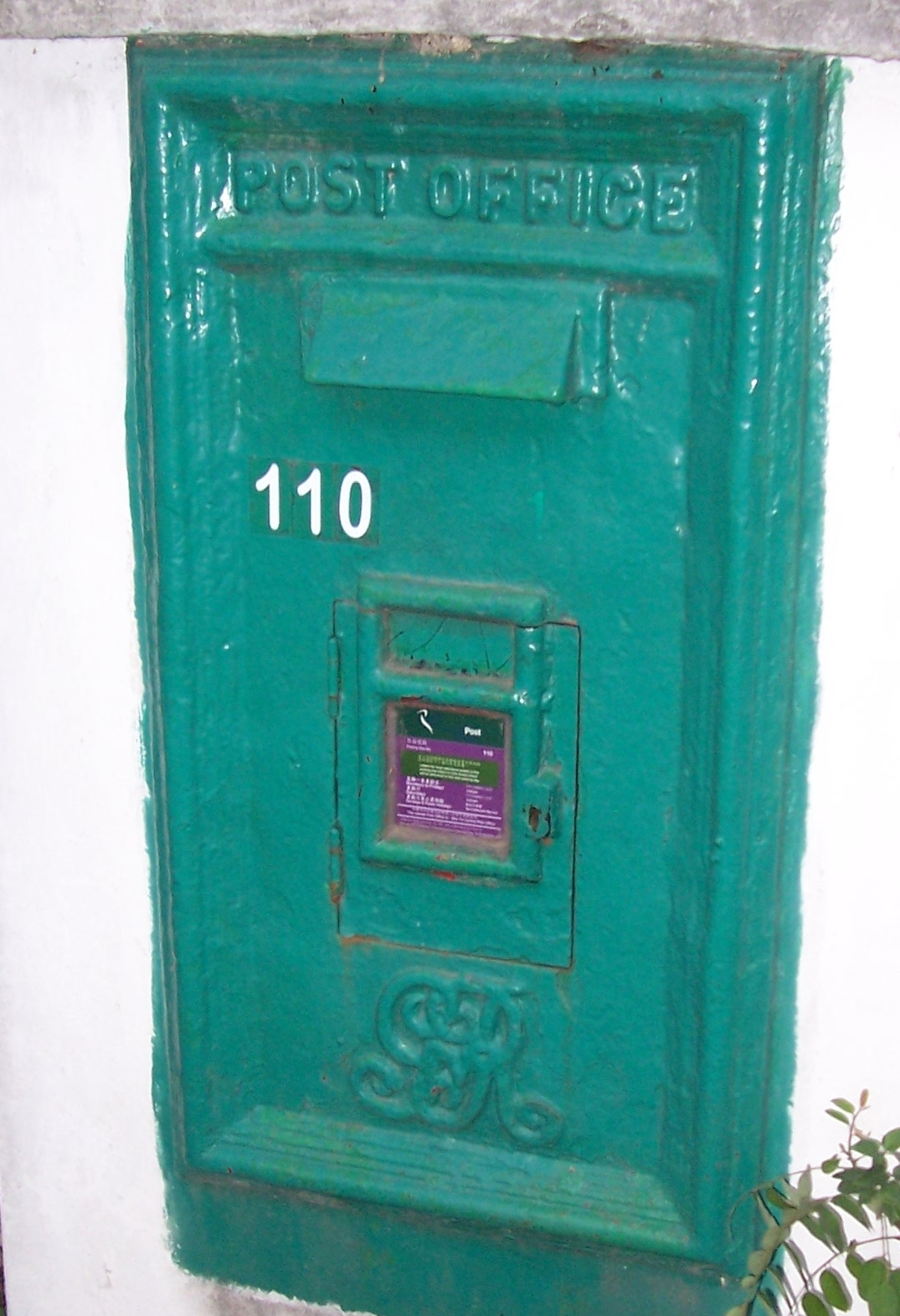 A street posting box in Hong Kong. Wad made during the colonial era of the British Empire. Originally painted in red, all the street posting boxes in Hong Kong were painted in green after 1997